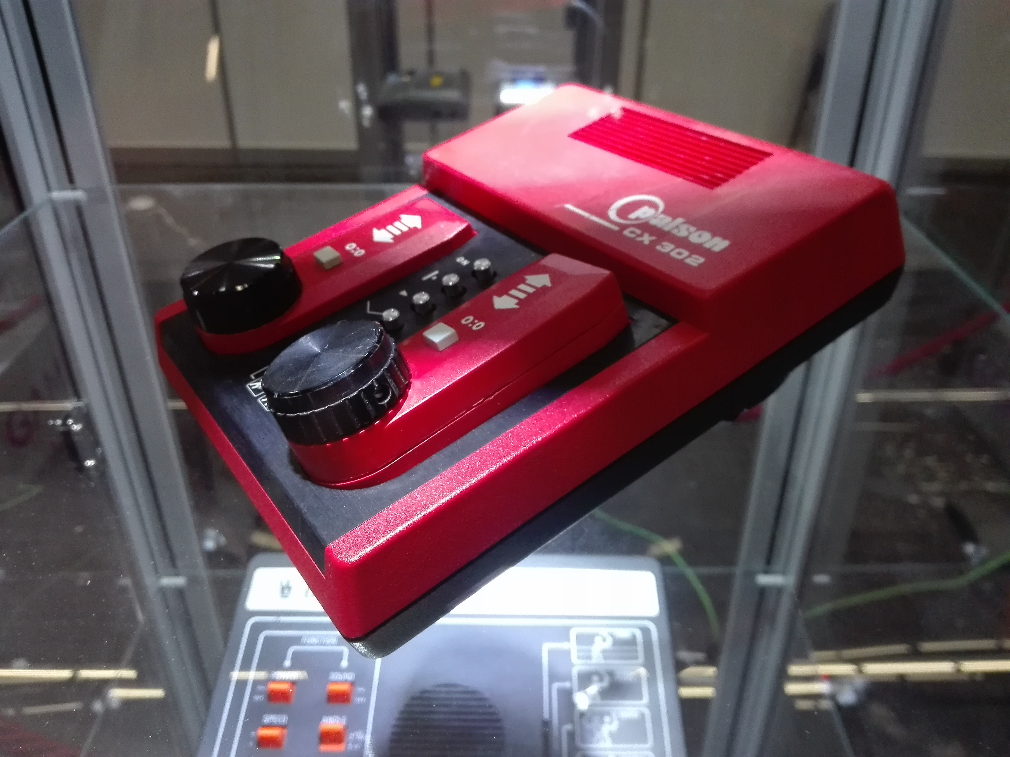 Palson CX-302 Los Palson CX son una gama de Pong fabricados por Electrónica Ripollés y comercializados por Palson.